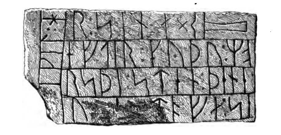 The runestone DR 48 M from Hanning. George Stephens lists this runestone as one of those bearing the hammer of Thor. The inscription reads ua-- : tofa : su(n) ¶ rsþi : sten : þene × ¶ eftir : Gyþu : moþ-¶r : sina ×÷: ¶ (×) (e)--kil : h.... In English " , Tófi's son, raised this stone in memory of Gyða, his mother. ...-kell (cut)."